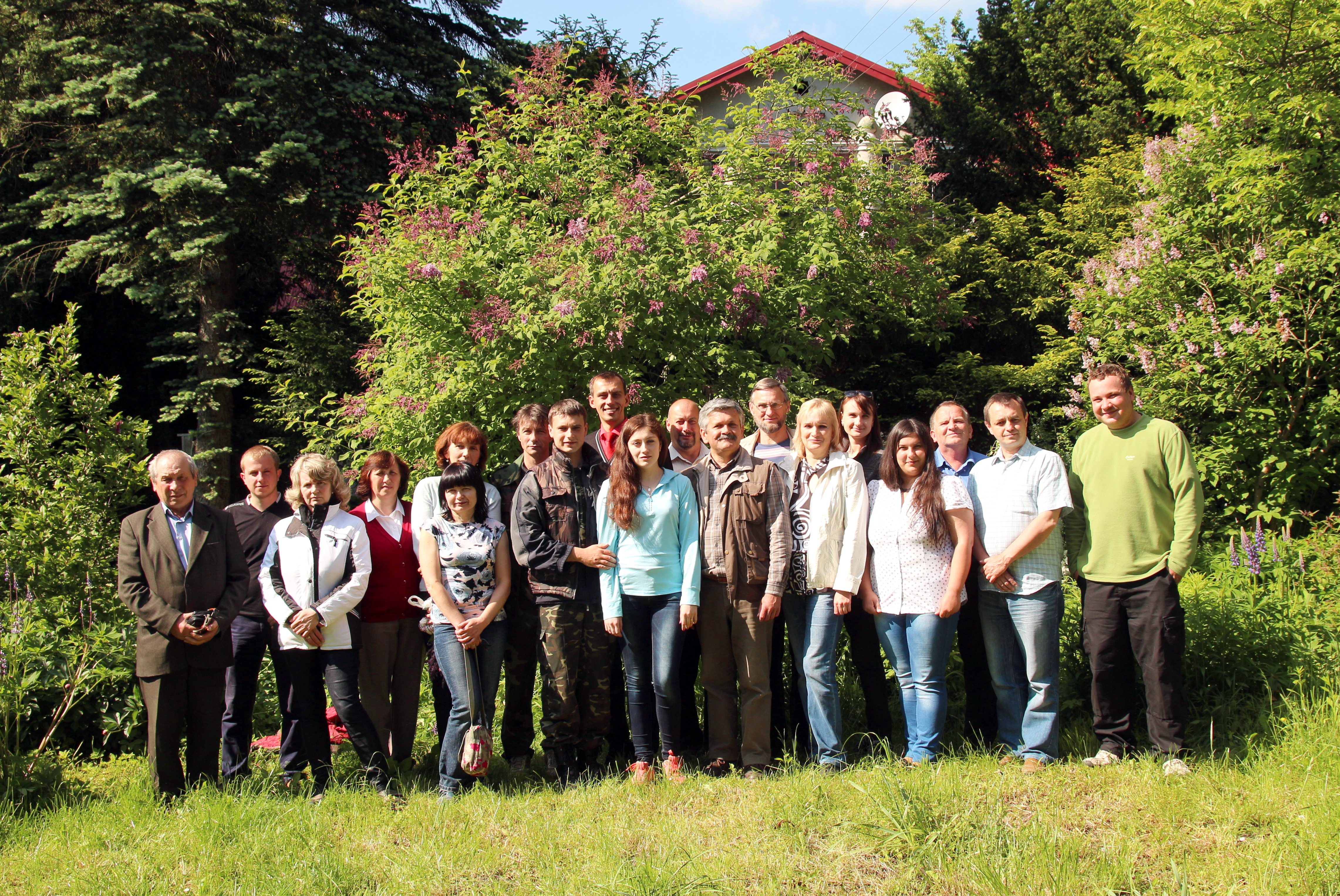 Participants of IX Lviv Entomological School, 29.05.2015, Ivano-Frankove town